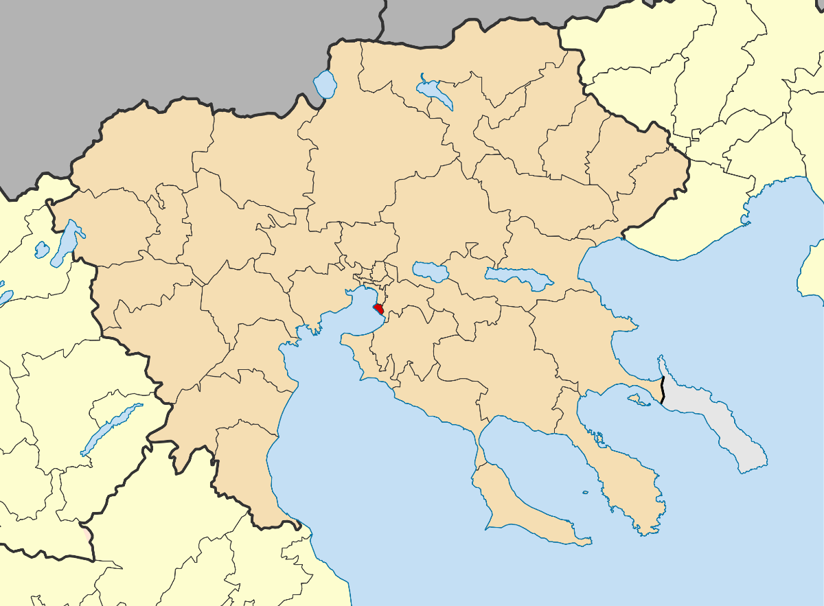 Locator map for Kalamaria municipality in Greek region Central Macedonia (2011)